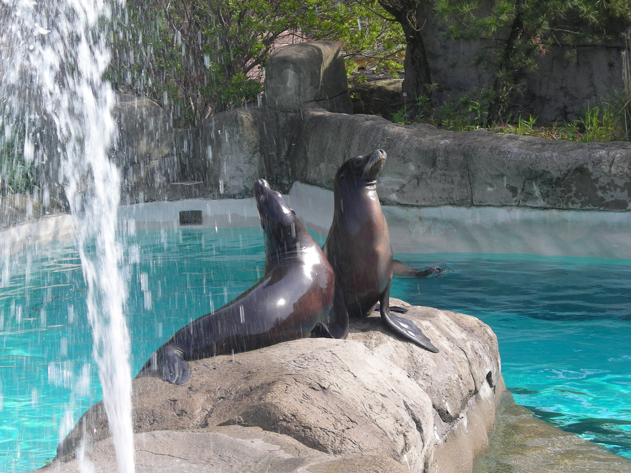 Sea lions at the Pittsburgh Zoo and PPG Aquarium